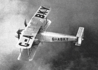 Vickers Vellox cargo aircraft